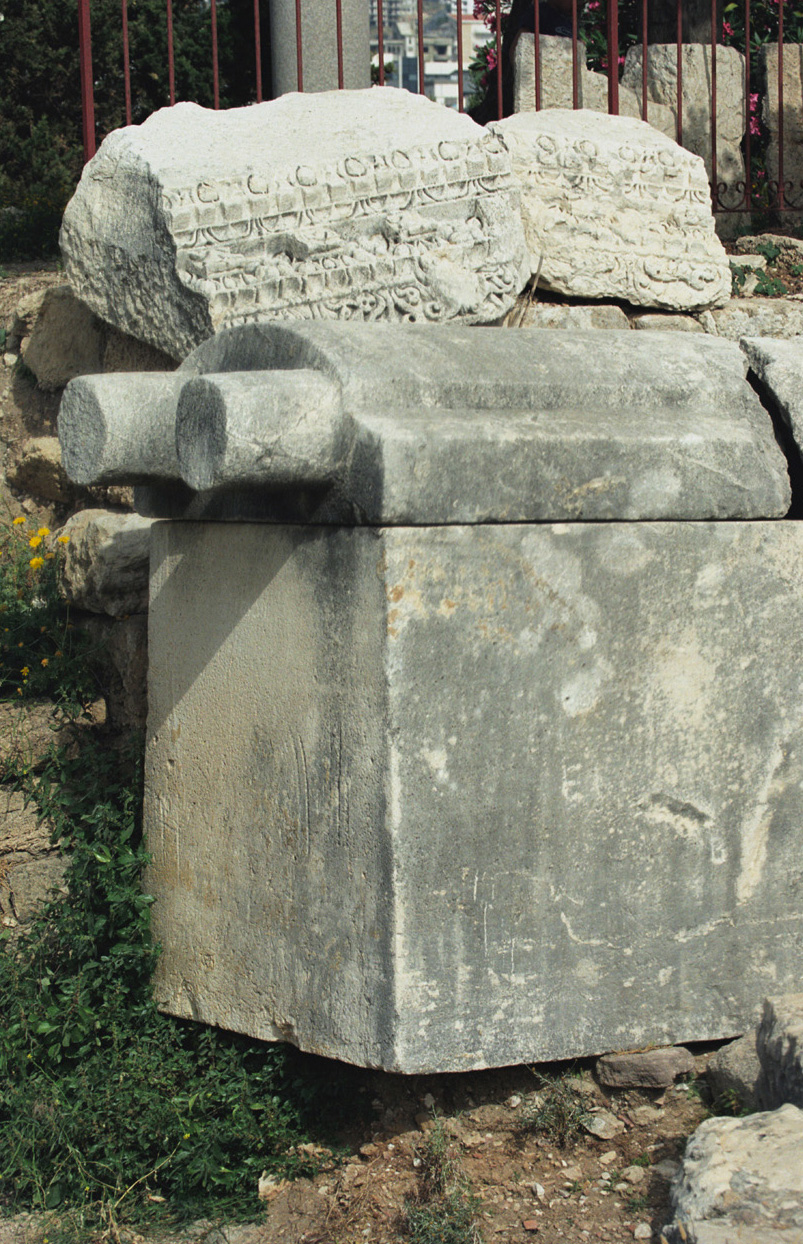 Byblos, the sarcophagus